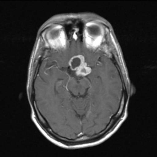 This image is part of a series which can be scrolled interactively with the mousewheel or mouse dragging. This is done by using Template:Imagestack. The series is found in the category Craniopharyngioma case 001. Kraniopharyngeom in der Magnetresonanztomographie. Tumor aus Resten der Rathke-Tasche - Ductus craniopharyngeus. Solide und zystische Anteile. Symptomatik in diesem Fall: Akuter Visusverlust rechts T1w axial Kontrastmittel